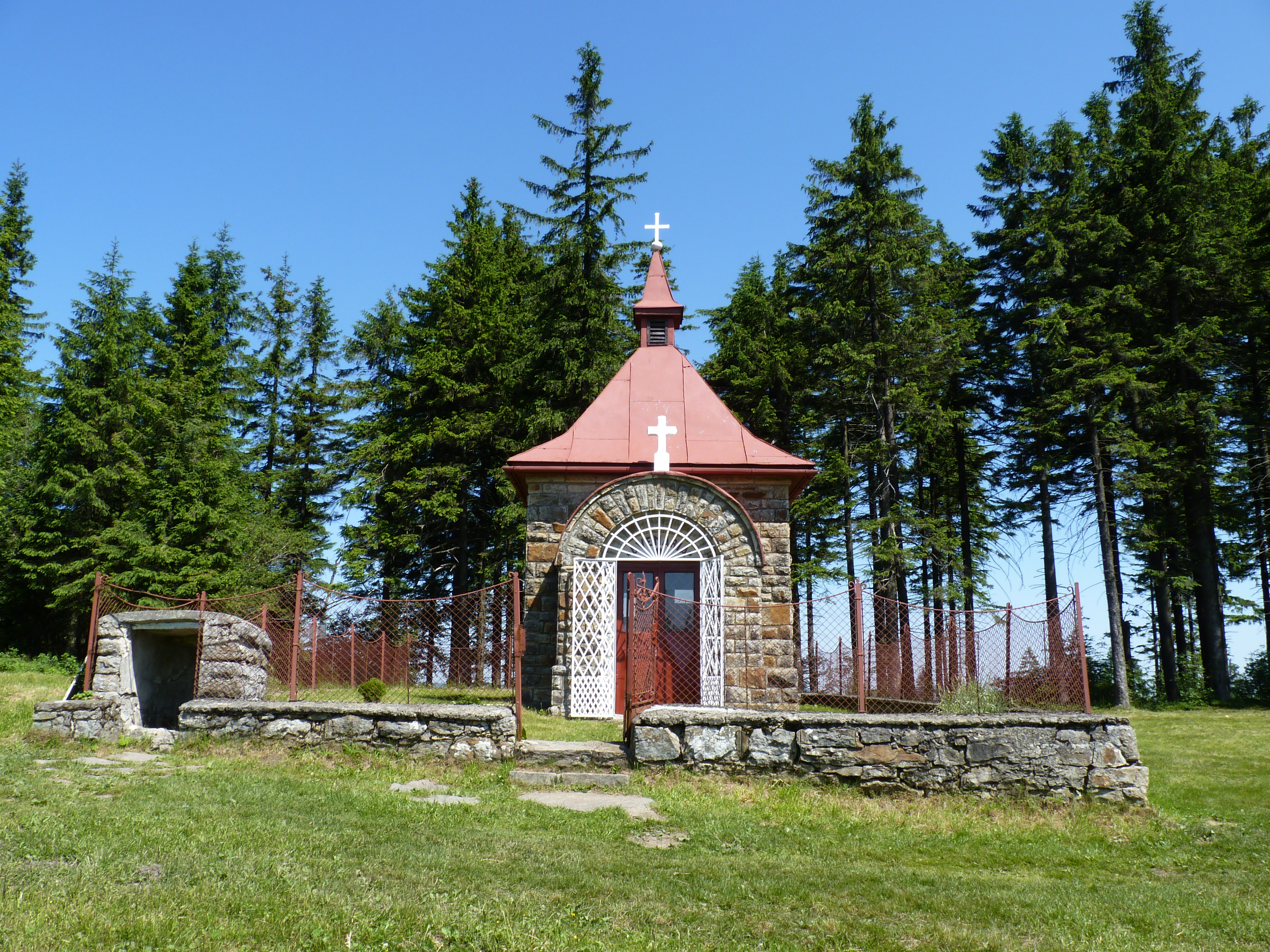 Moravian-Silesian Beskids, Czech Republic